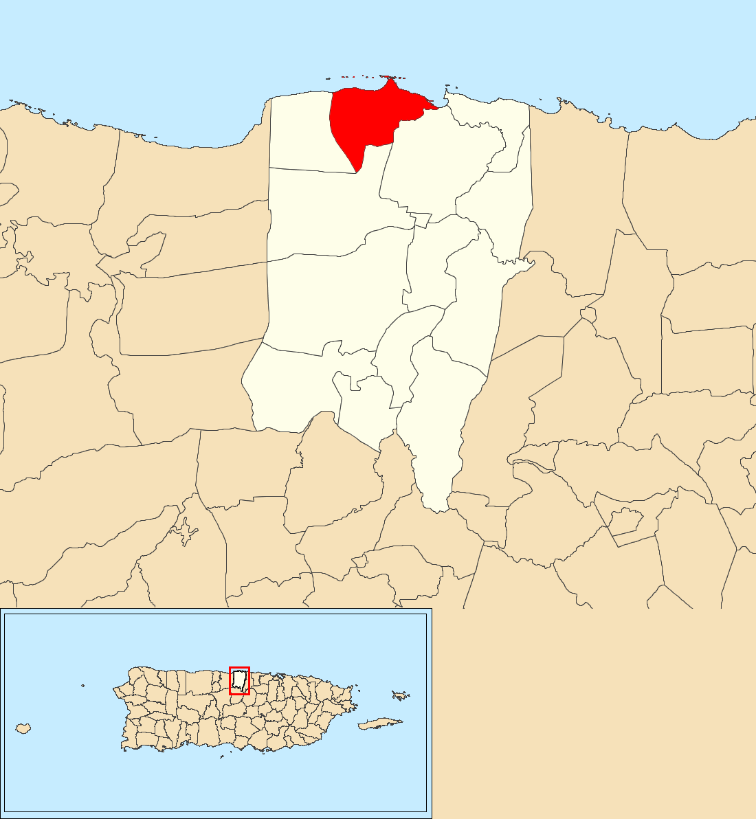 Puerto Nuevo, Vega Baja, Puerto Rico locator map